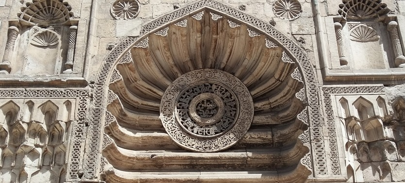 this is the entrance of imam aamir mosque in cairo